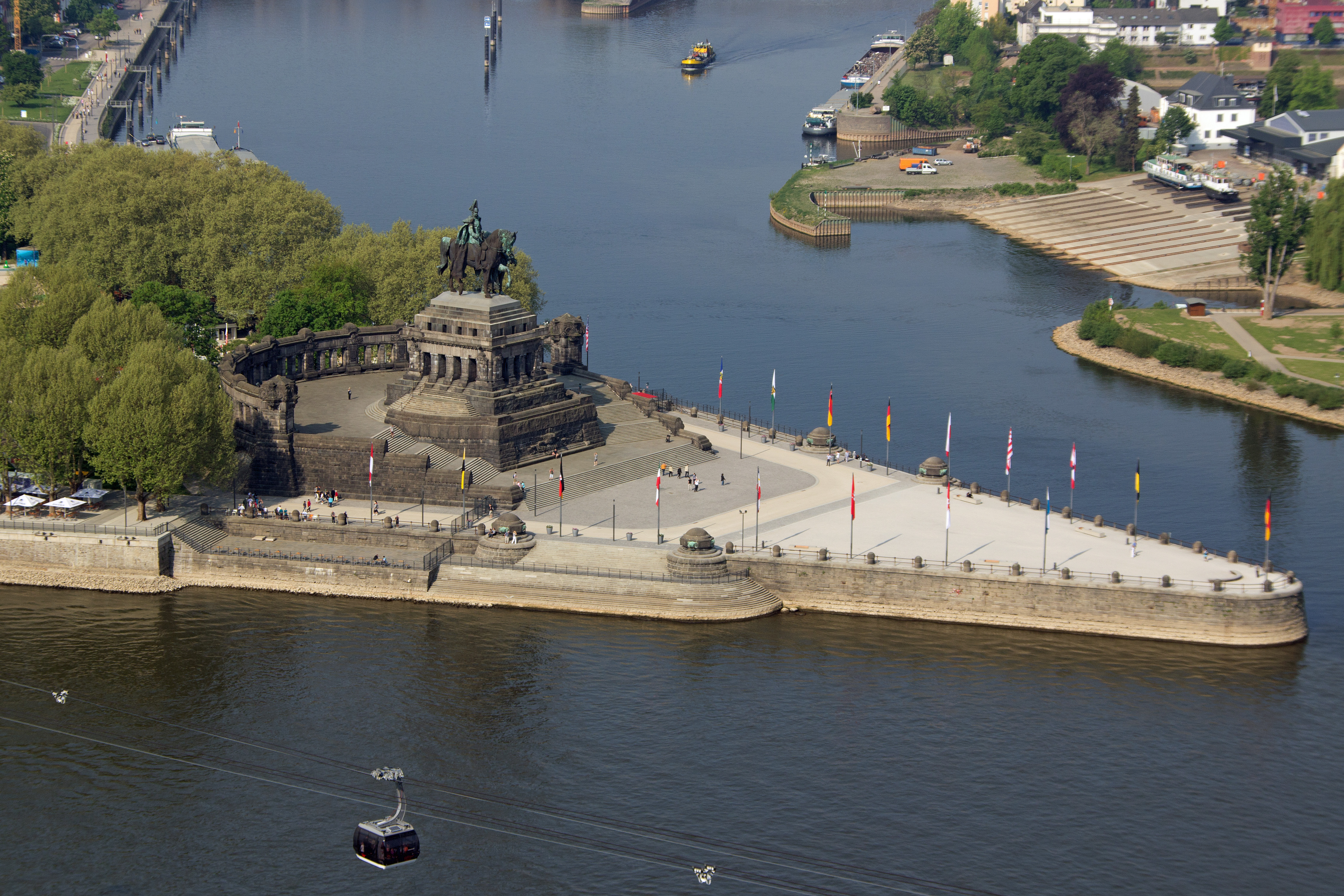 Deutsches Eck in Koblenz